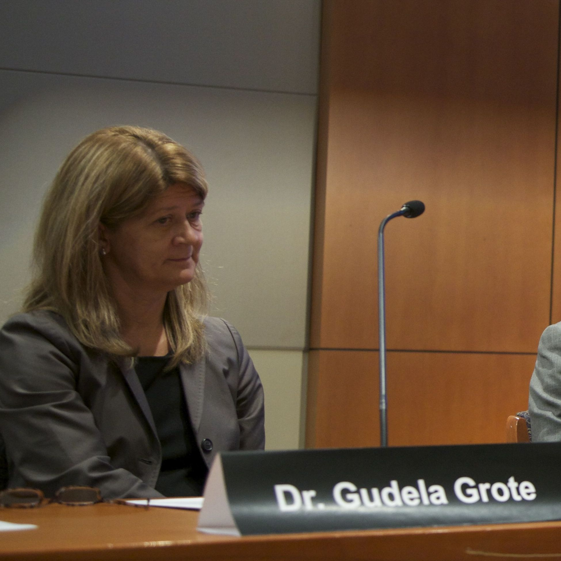 Safetyculture3 Panelists Dr. Gudela Grote, Swiss Federal Institute of Technology, Dr. Frank Guldenmund, Delft University of Technology, and Dr. John Carroll, Massachusetts Institute of Technology, speak to NTSB members at the Safety Culture: Enhancing Transportation Safety forum.